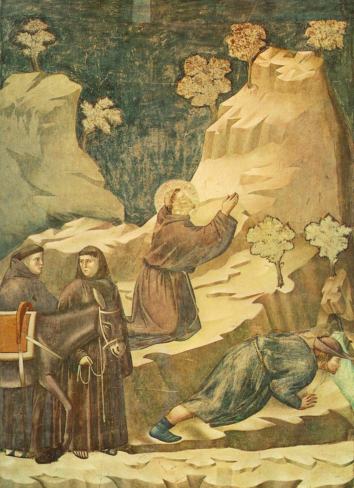 Legend of St Francis